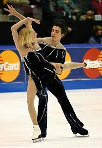 Kristin Fraser and Igor Lukanin compete their free dance at the 2003 Skate Canada competition in Mississauga, Ontario. Photo taken by me, Vesperholly 06:10, 17 July 2006 (UTC)